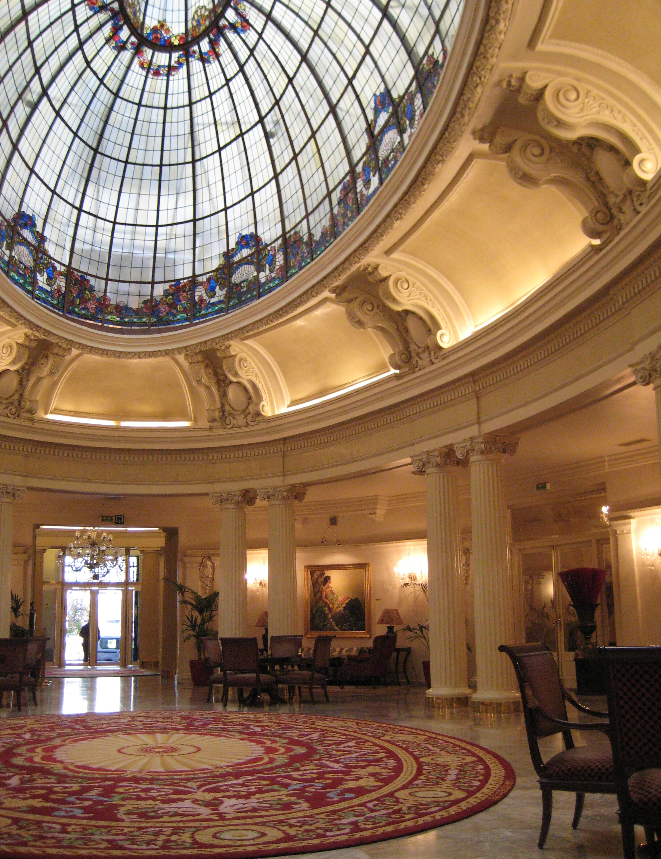 Main Hall in the ground floor of Carlton Hotel in Bilbao, in th